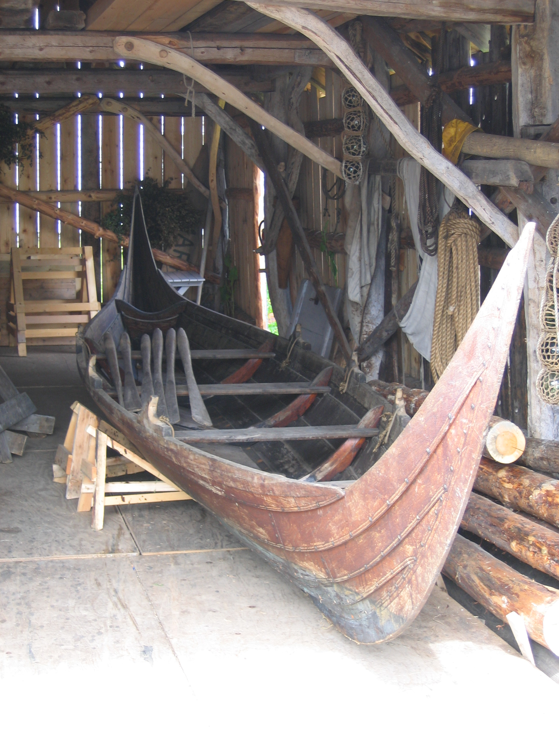 A reconstruction of the pre-viking era boat "Kvalsundfæringen", dug out of a bog in Kvalsund, Herøy, Møre og Romsdal, Norway in 1920. The reconstruction has 6 oars instead of 4 as the original, and is exhibited at the Herøy coastal museum.